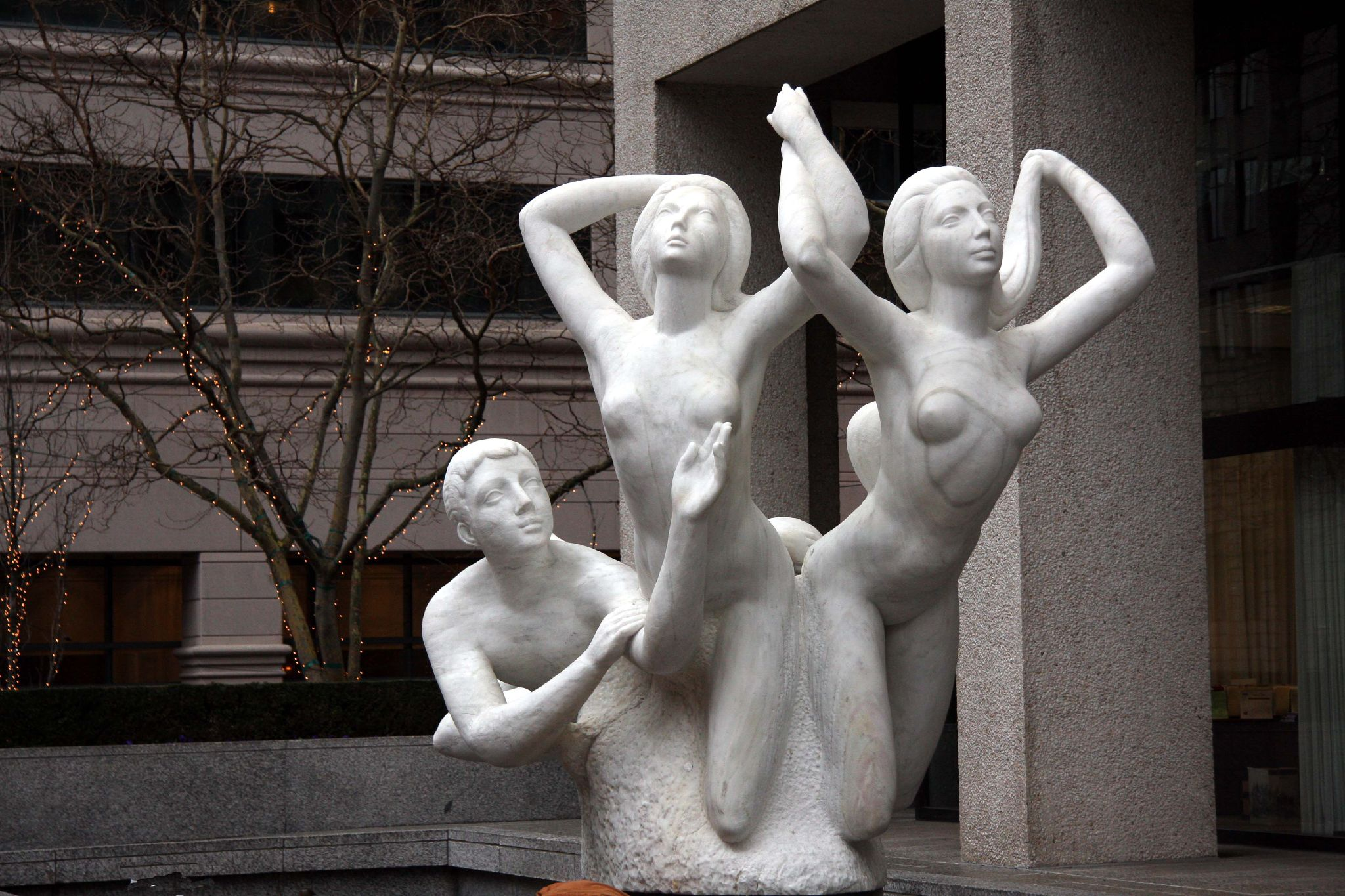 The Quest sculpture in Portland, Oregon; by Count Alexander von Svoboda (born 1929)